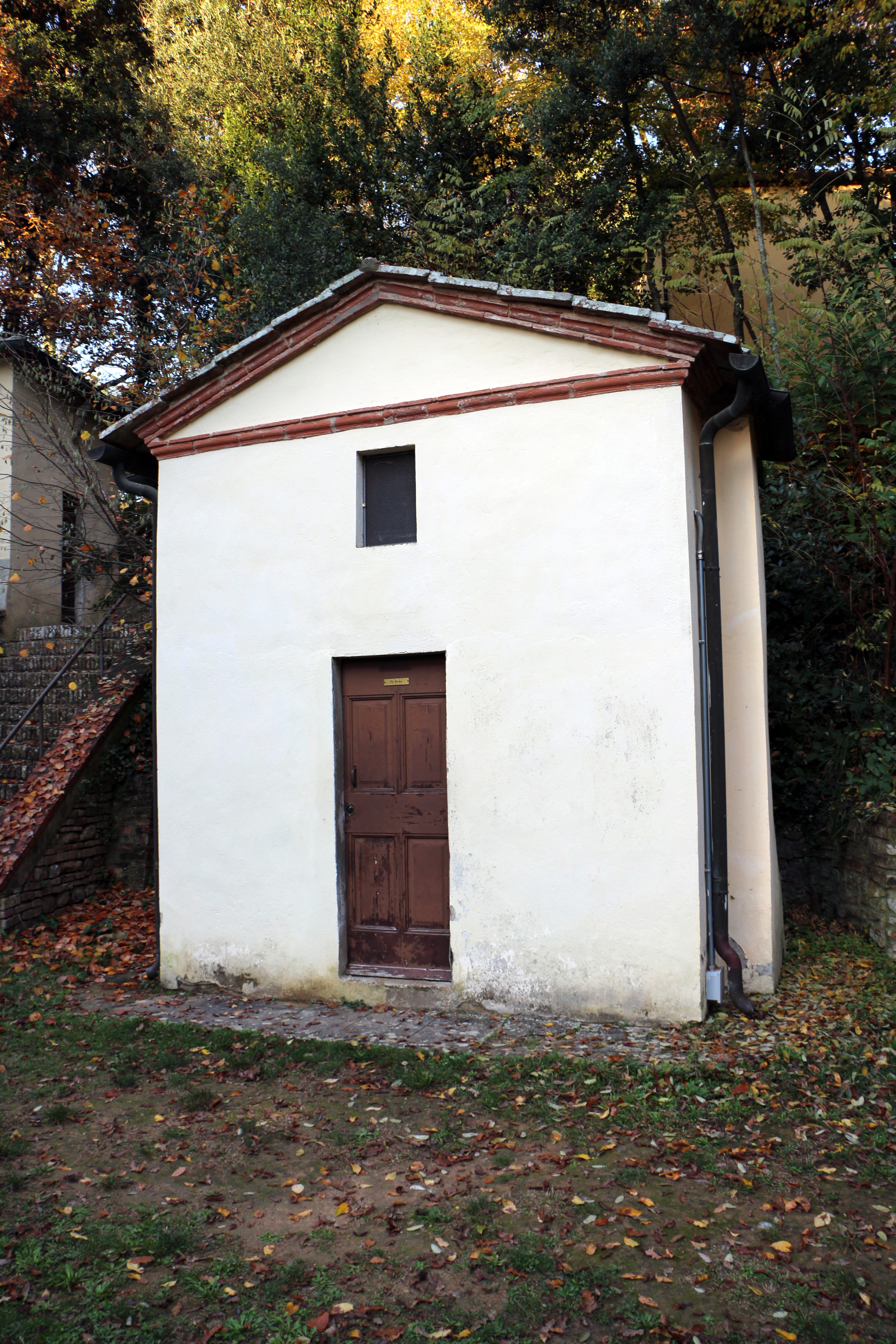 San Vivaldo Sacro Monte